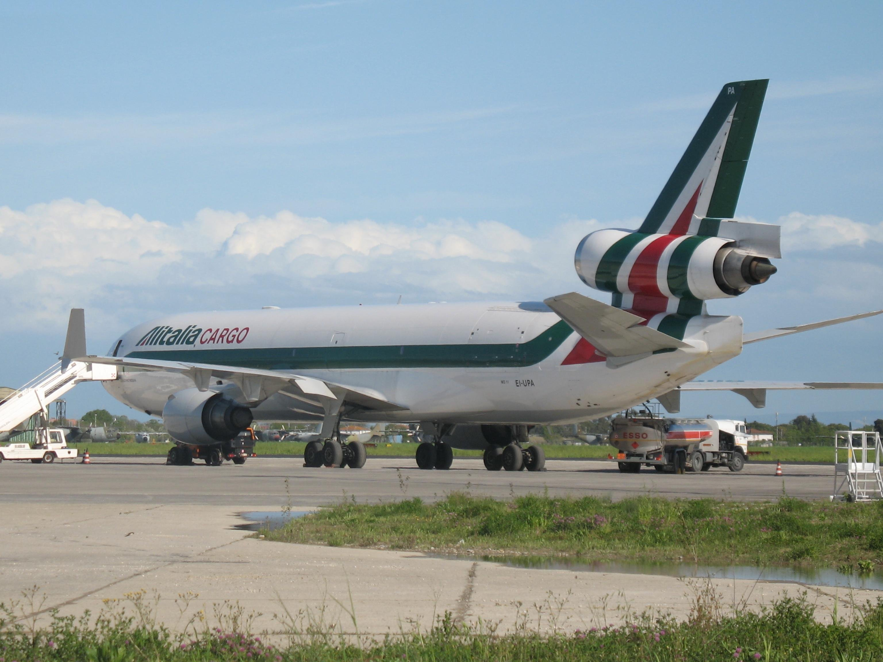 Alitalia-Linee Aeree Italiane McDonnell Douglas DC-10|McDonnell Douglas MD-11F, EI-UPA, c/n 48426/458, delivered to McDonnell Douglas Corporation in 1991-07-01 as N8020Z. Delivered to Alitalia in 1992-03-27 as I-DUPA. Stored at Fiumicino Airport in 2004-01-25. Registered EI-UPA in June 2006. Delivered to Pegasus Aviation in January 2009. Leased to Centurion Air Cargo in 2009-09-18 and registered N986AR.